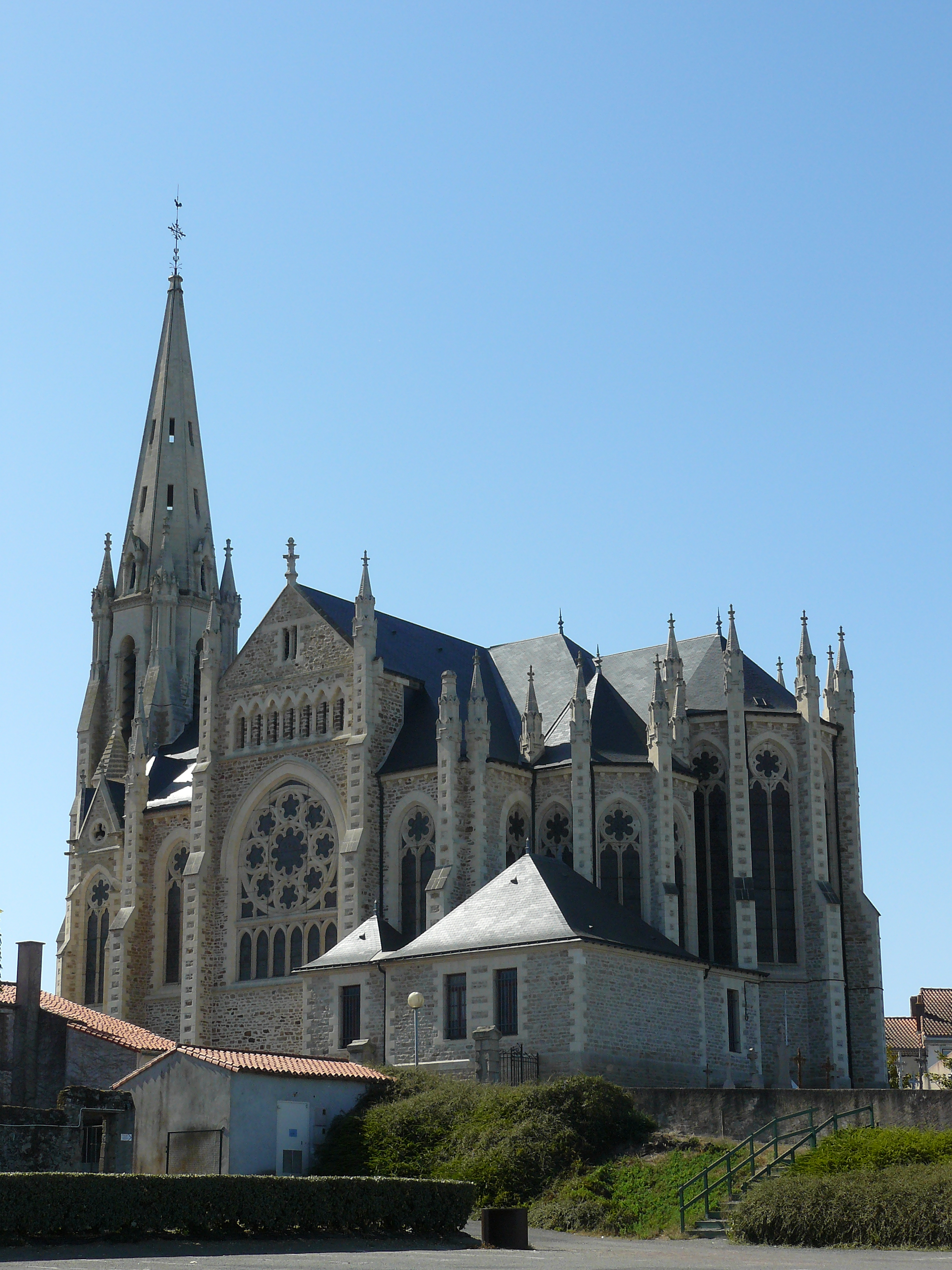 Church of Aigrefeuille-sur-Maine